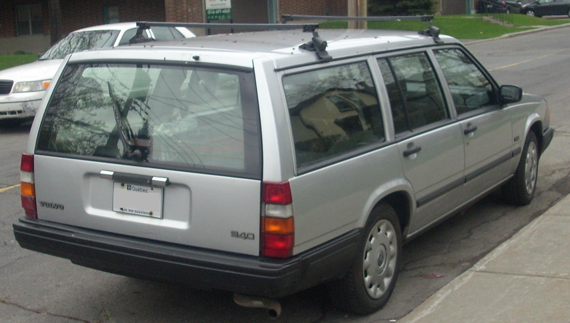 Volvo 940 photographed in Montreal, Quebec, Canada.